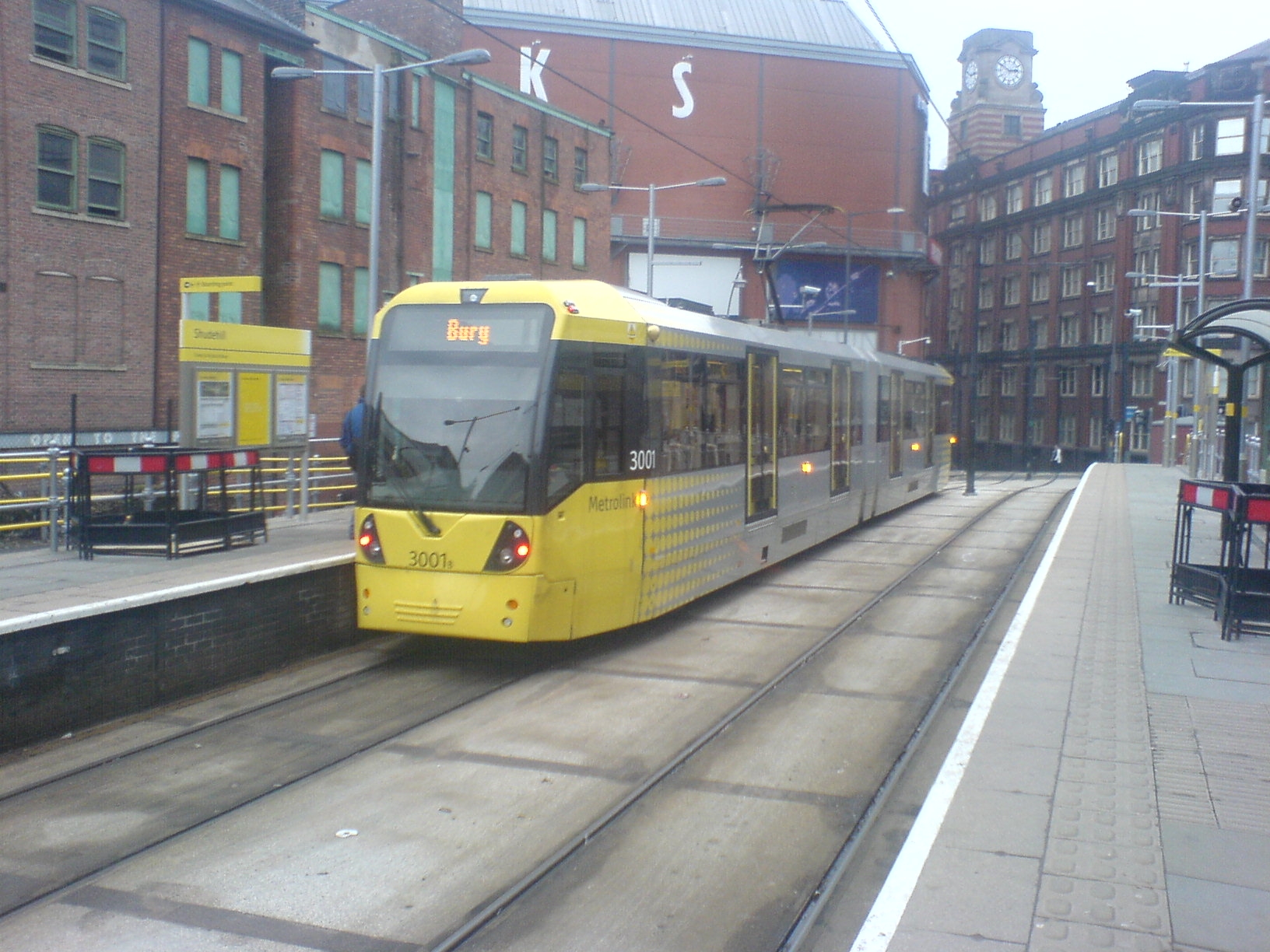 M5000 tram at Shudehill, Manchester.